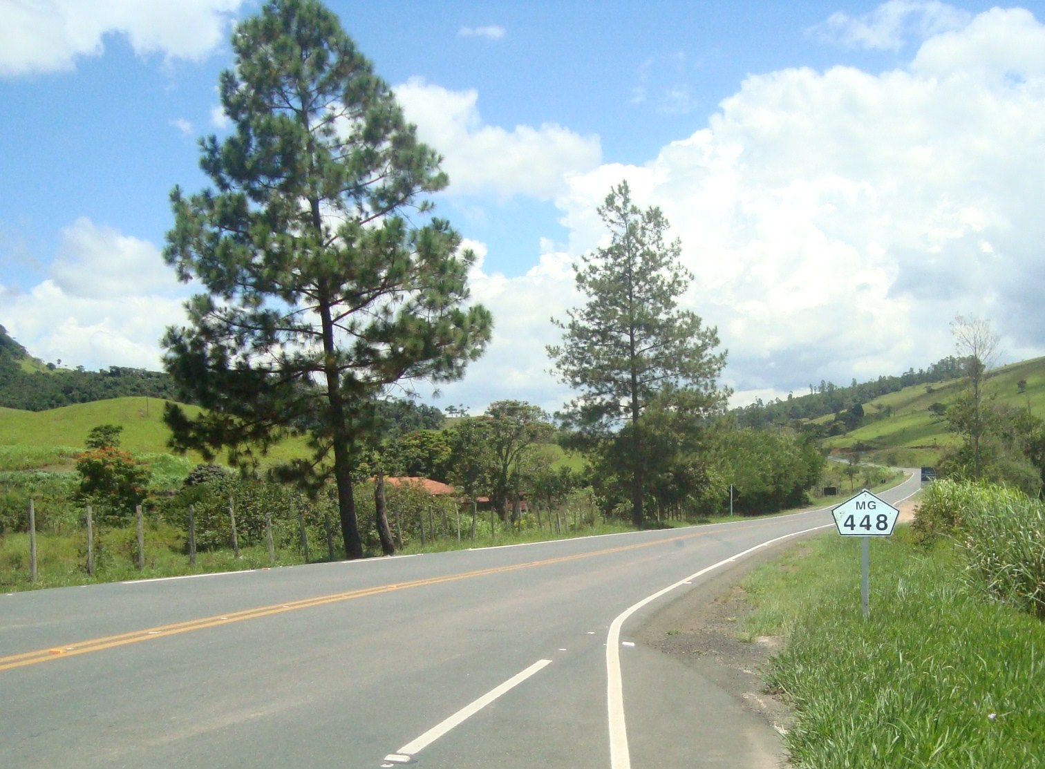 Road MG-448 in Merces, Minas Gerais, Brazil